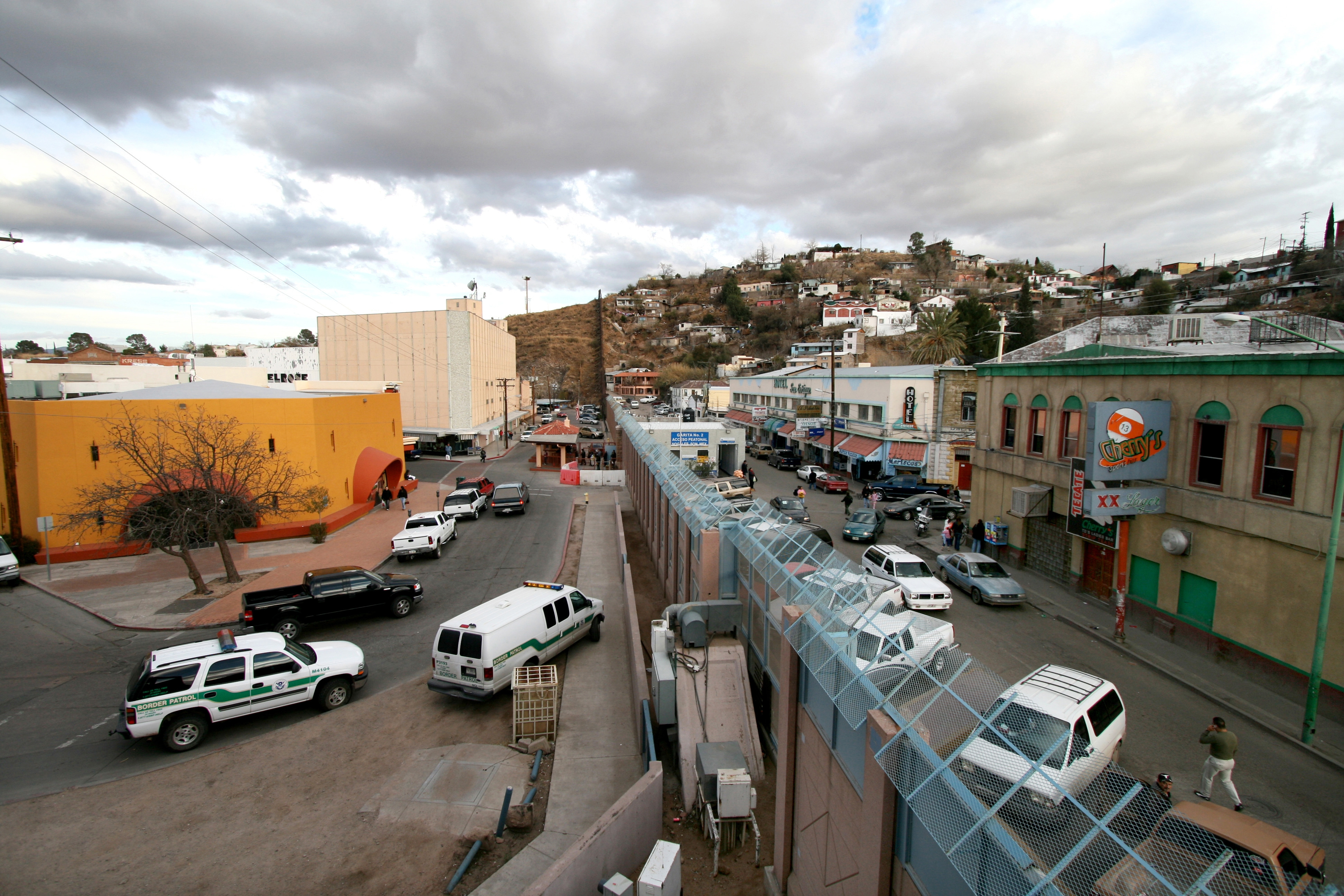 The towns of Nogales, Arizona, left, and Nogales, Mexico, stand separated by a high concrete and steel fence.